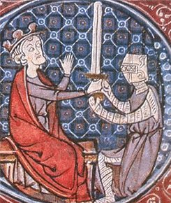 A miniature image of king David I of Scotland knighting a squire